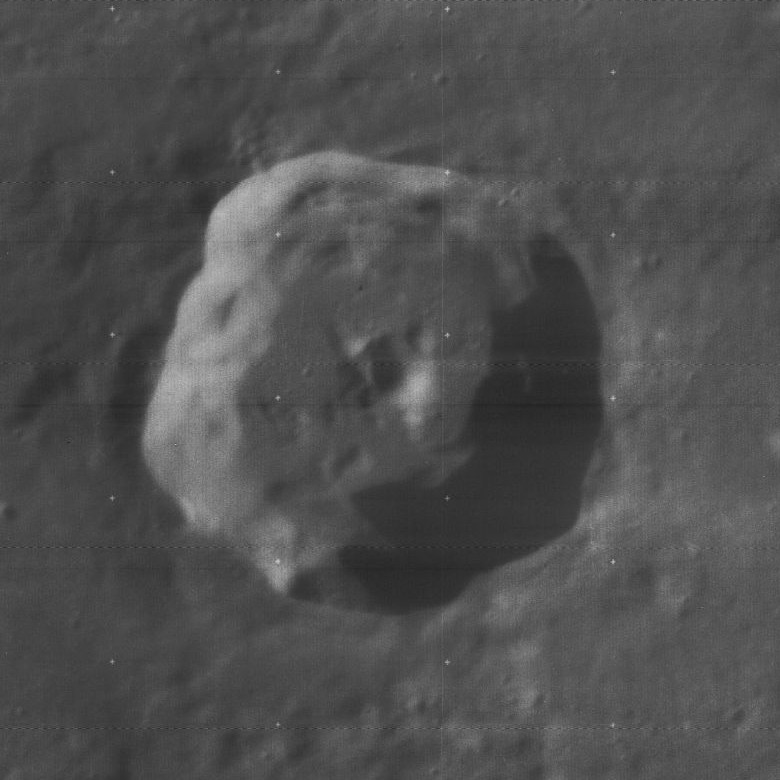 Democritus, on the moon.